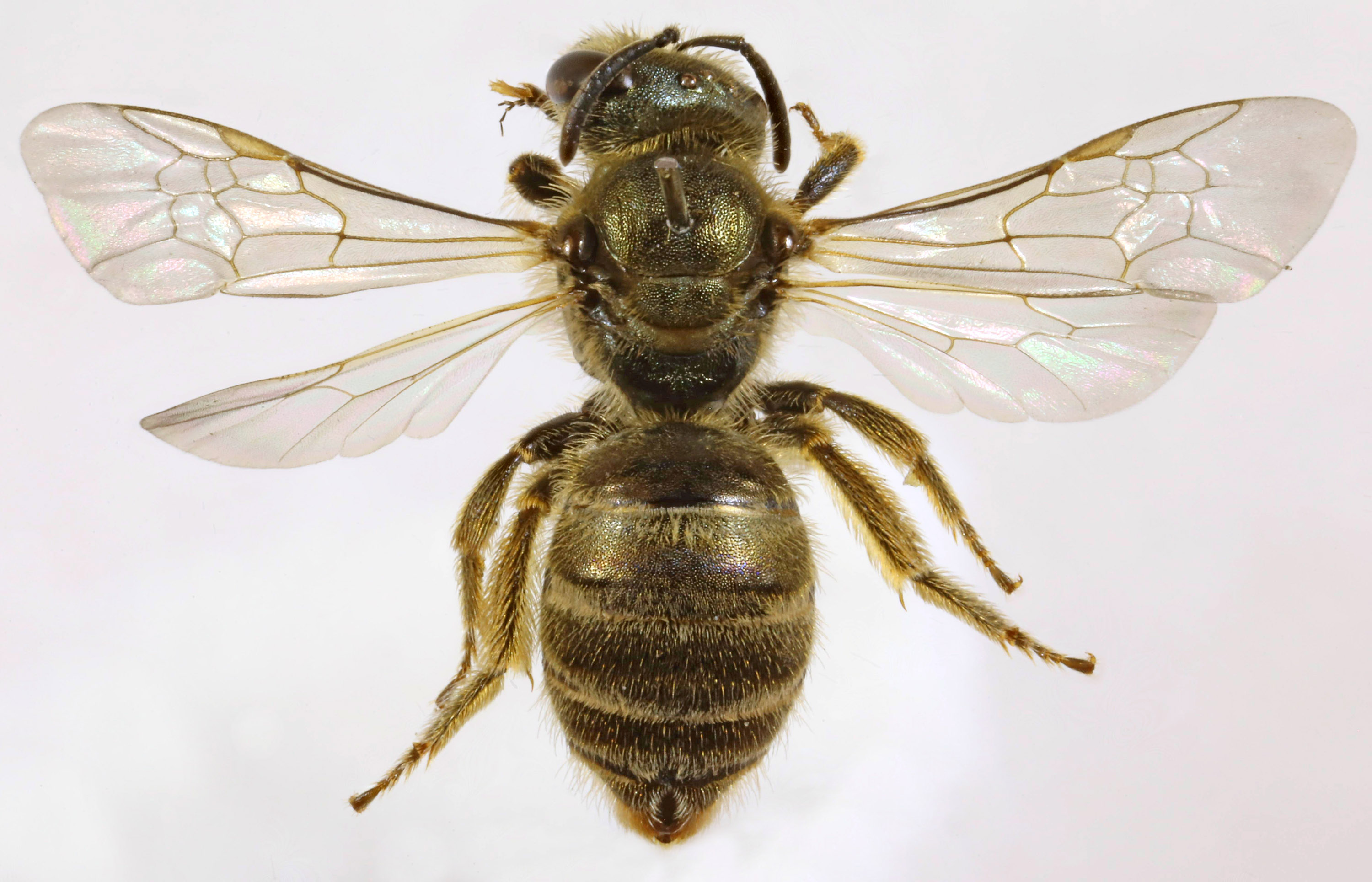 Halictus tumulorum female, Bagillt, North Wales, July 2016 3